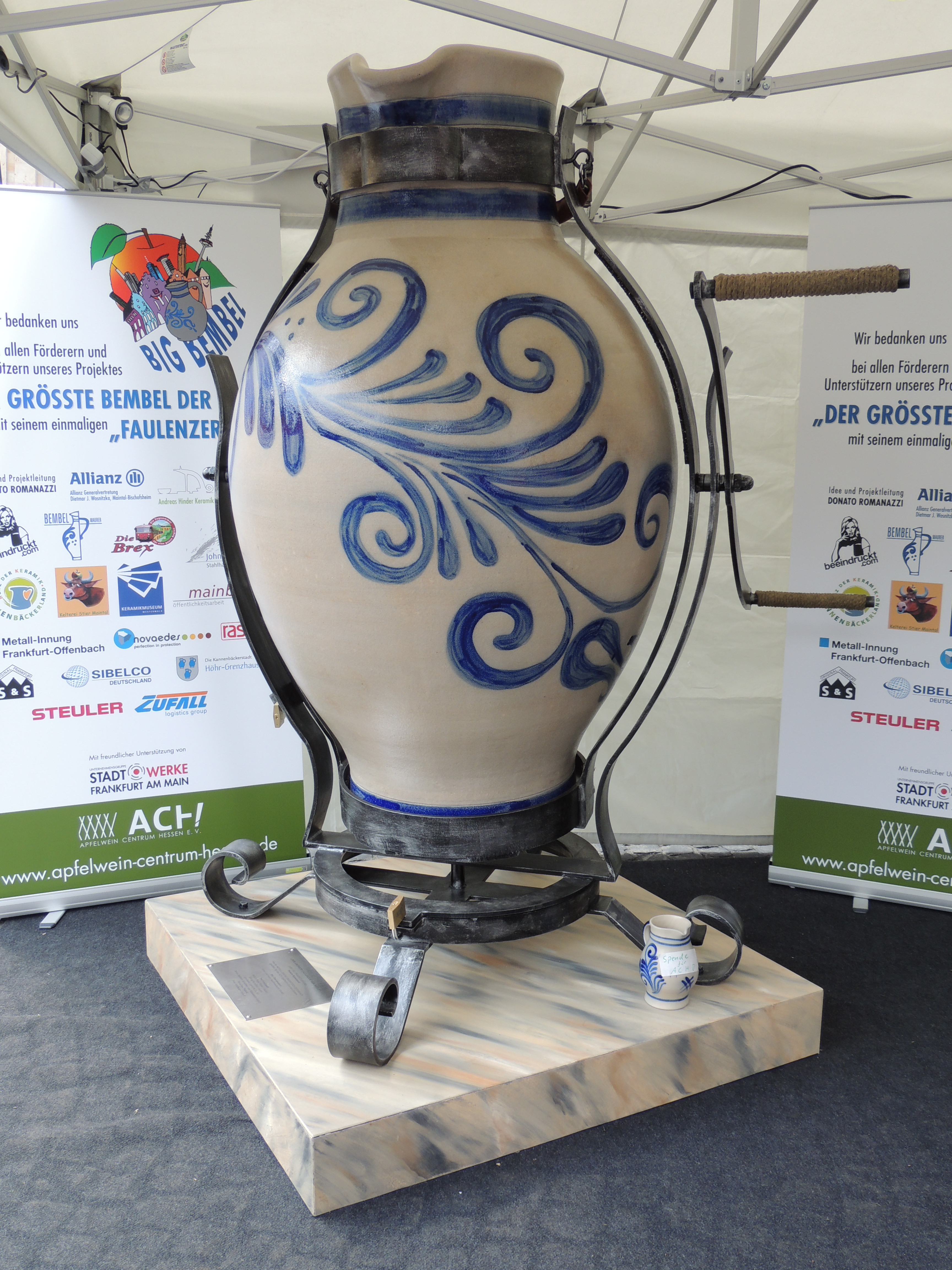 World biggest Creamware-Bembel (capacity: 670 liters, empty weight 300 kgs) for Apfelwein in Frankfurt am Main, Germany, May 7th, 2013